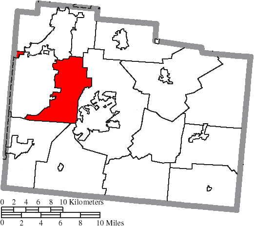 Map of the municipal and township boundaries of Greene County, Ohio, United States, as of the 2000 census, with the location of Beavercreek Township highlighted. Township borders are shown only in unincorporated areas in order to differentiate incorporated and unincorporated areas more clearly.